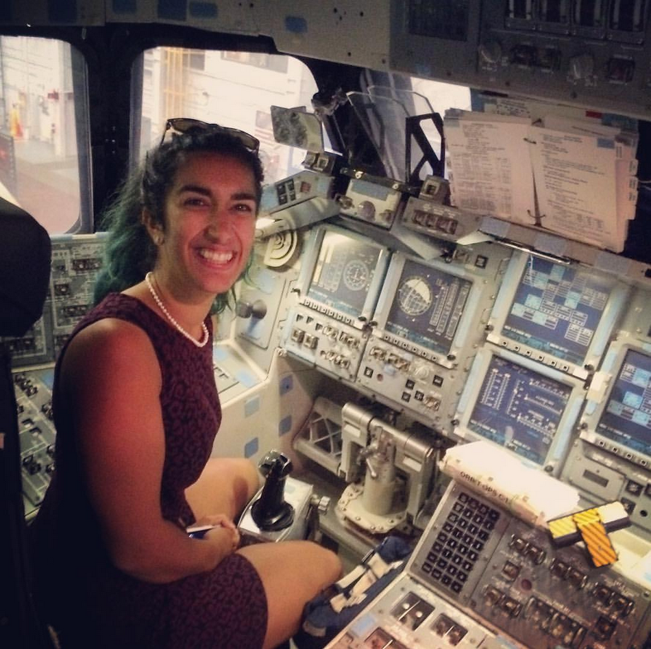 Farah Alibay space shuttle cockpit simulator